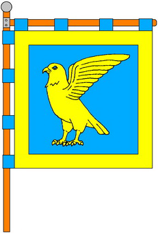 Flag of Sokal (Lviv oblast, Ukraine)